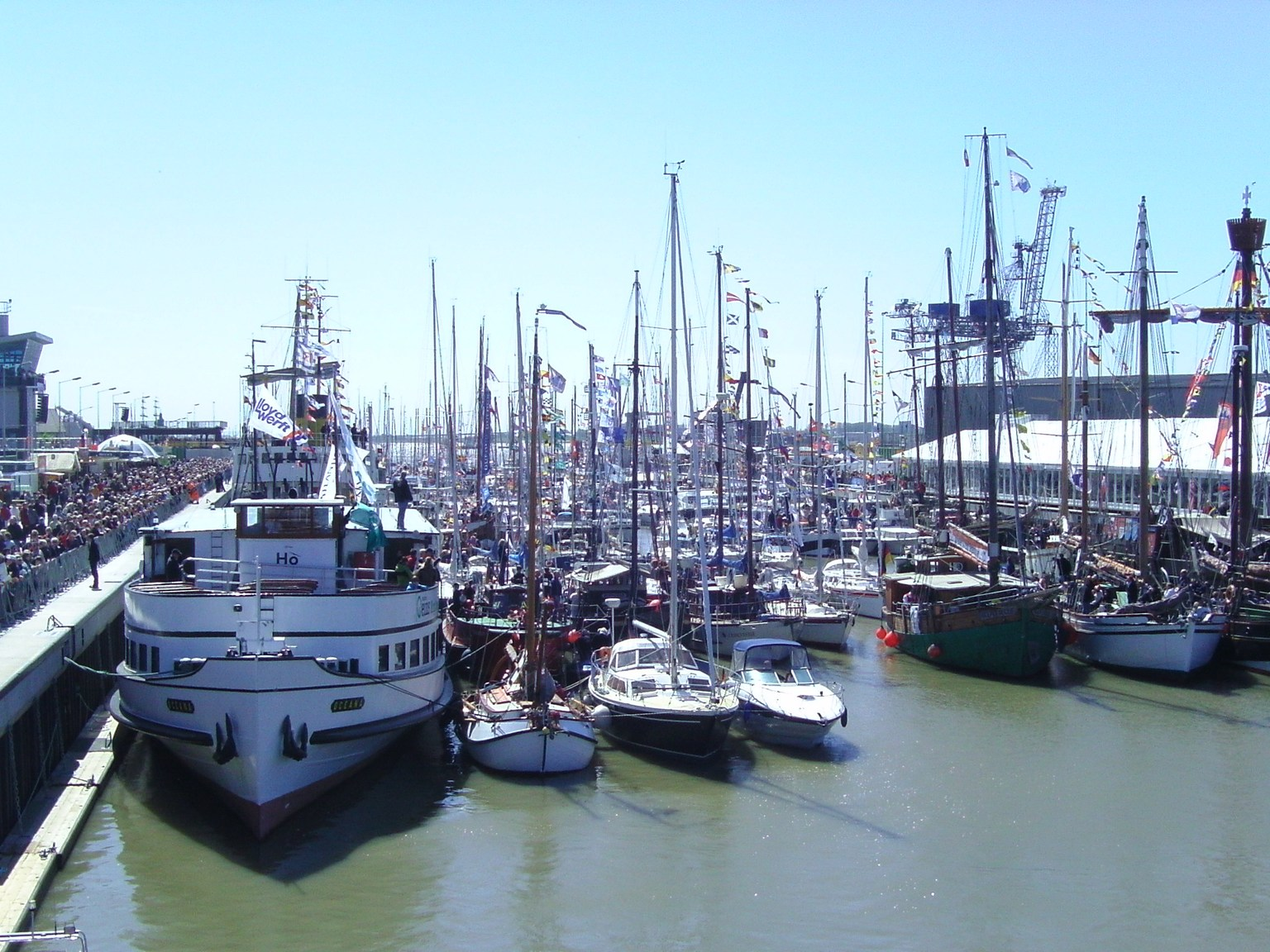 A parade of sport boats war organized for the opening ceremony of the enlarged Kaiser sluice in Bremerhaven, Germany